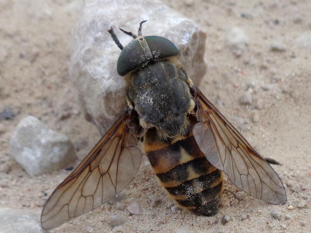 Tabanus bovinus. Found in Bērzi village near Bauska city, Latvia.